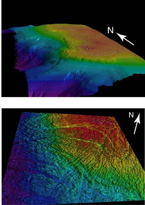 Image courtesy of Lewis and Clark Legacy 2001